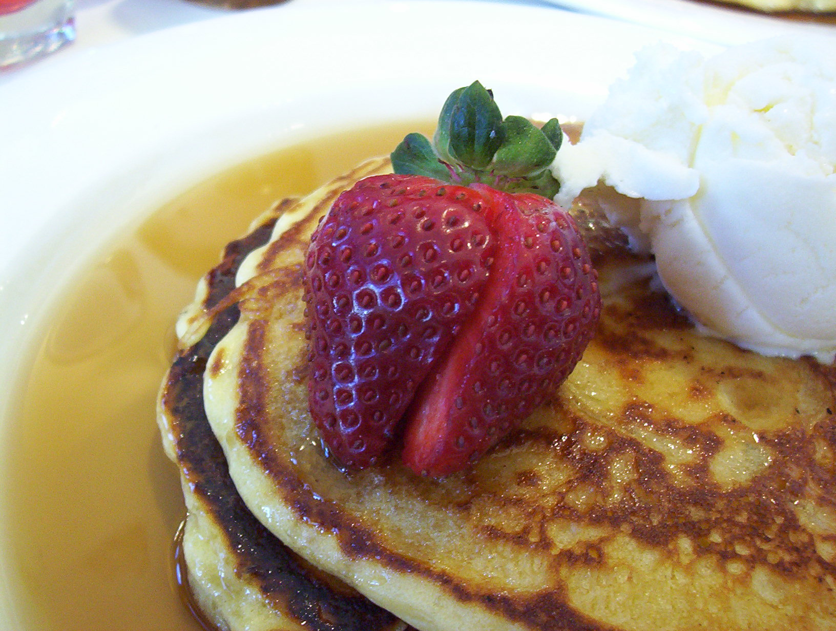 Strawberry on Pancake